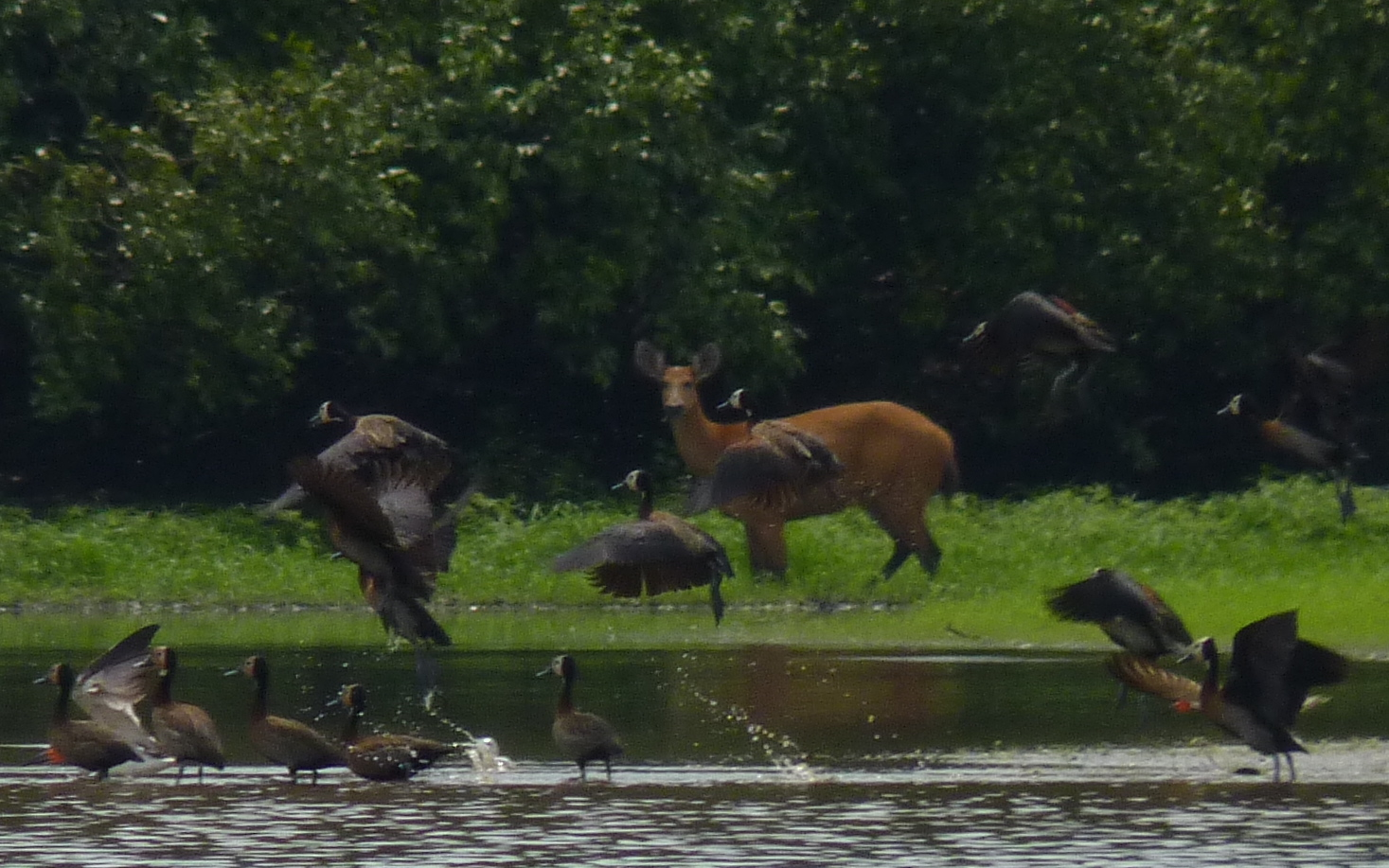 A marsh deer grazes among white-faced whistling ducks in Cantão State Park, Brazil